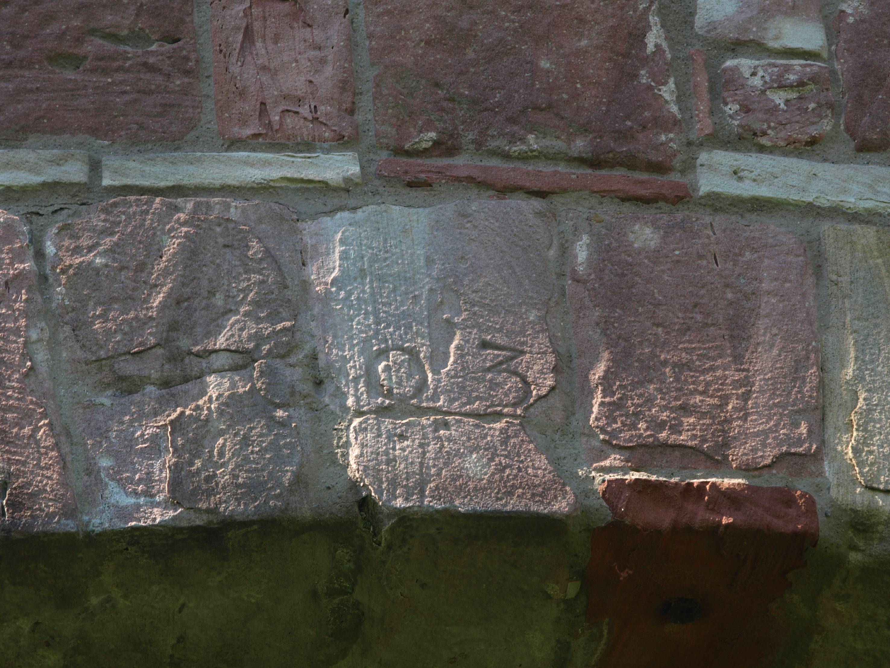 Werrabrücke Vacha, one of the keystones, at the summit of an bridge arch with the date 1630